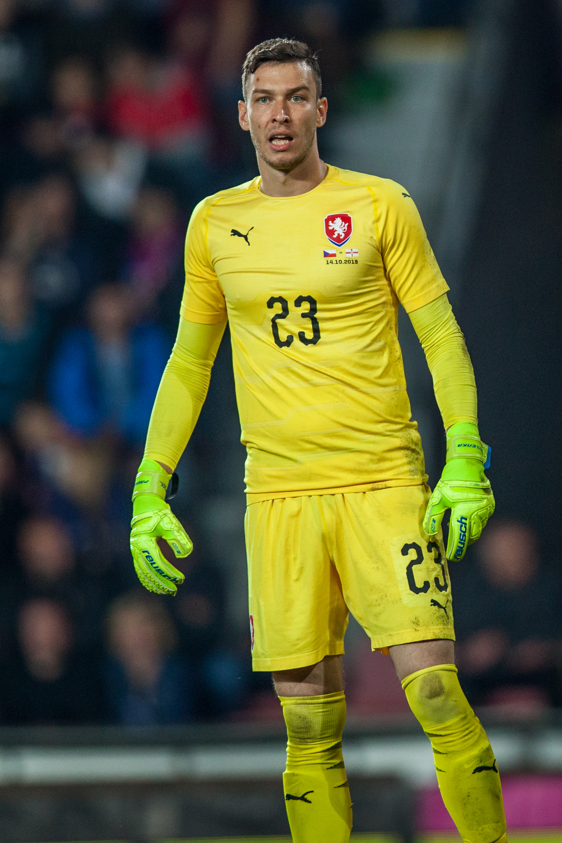 Jiří Pavlenka in an international friendly match between Czech Republic and Northern Ireland (2:3), Stadion Letná (Prague) 2019-10-14 The making of this work was supported by Wikimedia Austria. For other files made with the support of Wikimedia Austria, please see the category Supported by Wikimedia Österreich. Personality rights warningAlthough this work is freely licensed or in the public domain, the person(s) shown may have rights that legally restrict certain re-uses unless those depicted consent to such uses. In these cases, a model release or other evidence of consent could protect you from infringement claims.